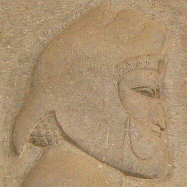 Sagartian